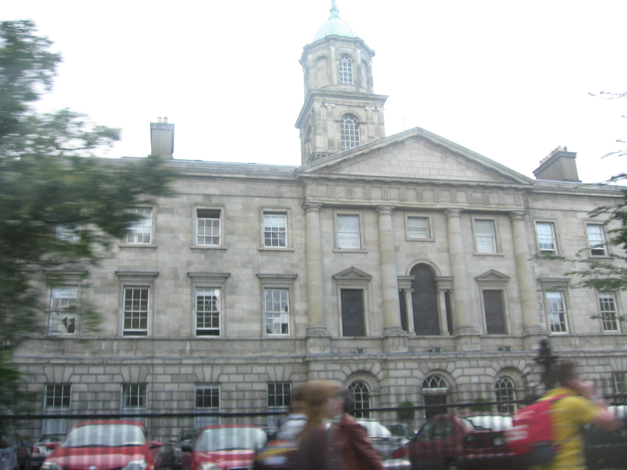 The "Rotunda" maternity hospital, Dublin, Ireland- the oldest maternity hospital in continuous operation in Europe.